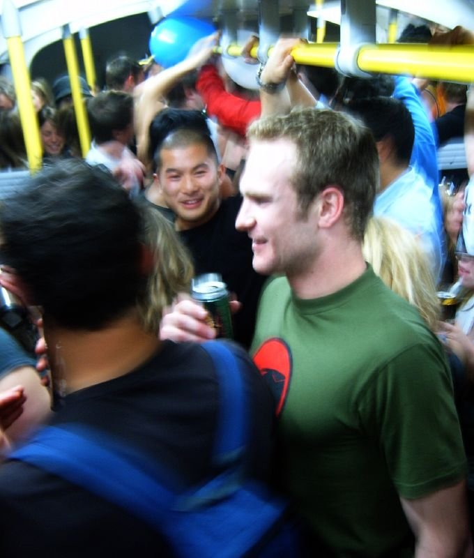 The final Circle Line Party before alcohol was banned on the London Underground.